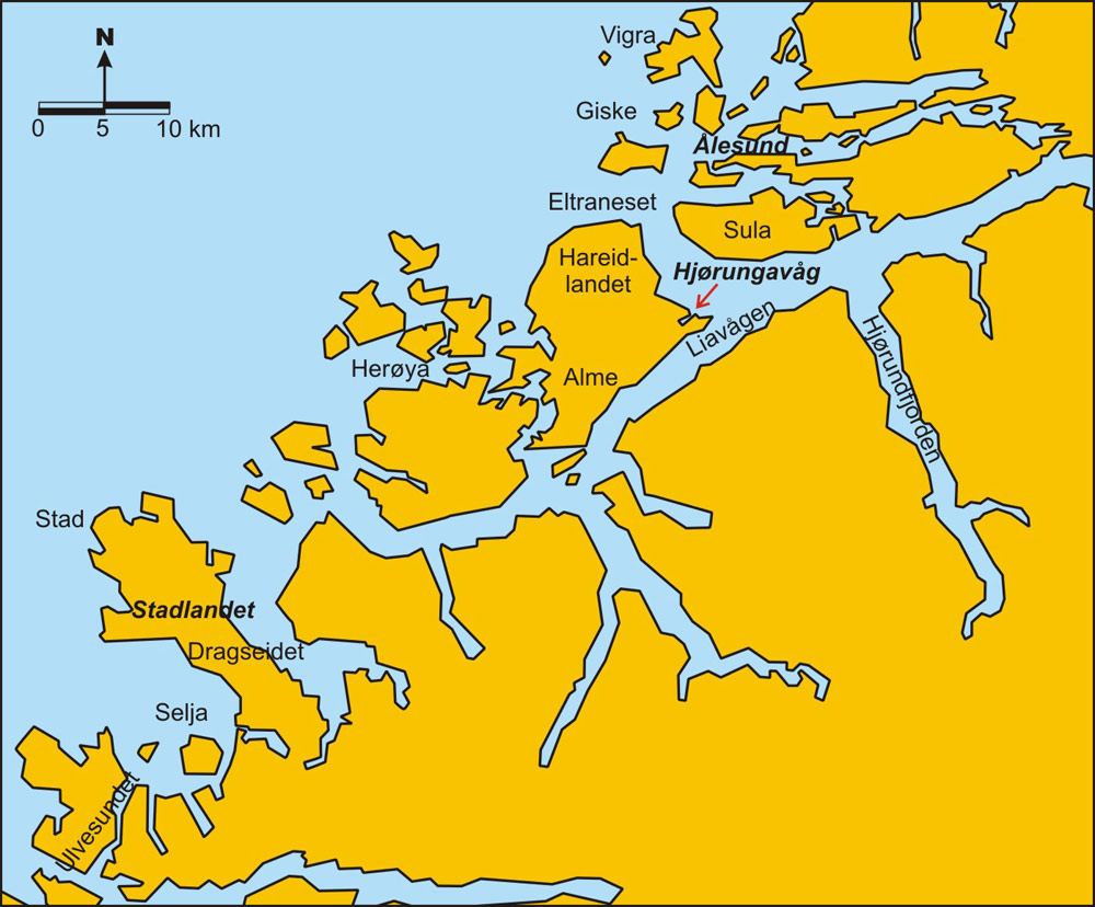 Map showing the place for the battle of Hjørnungavåg, 986